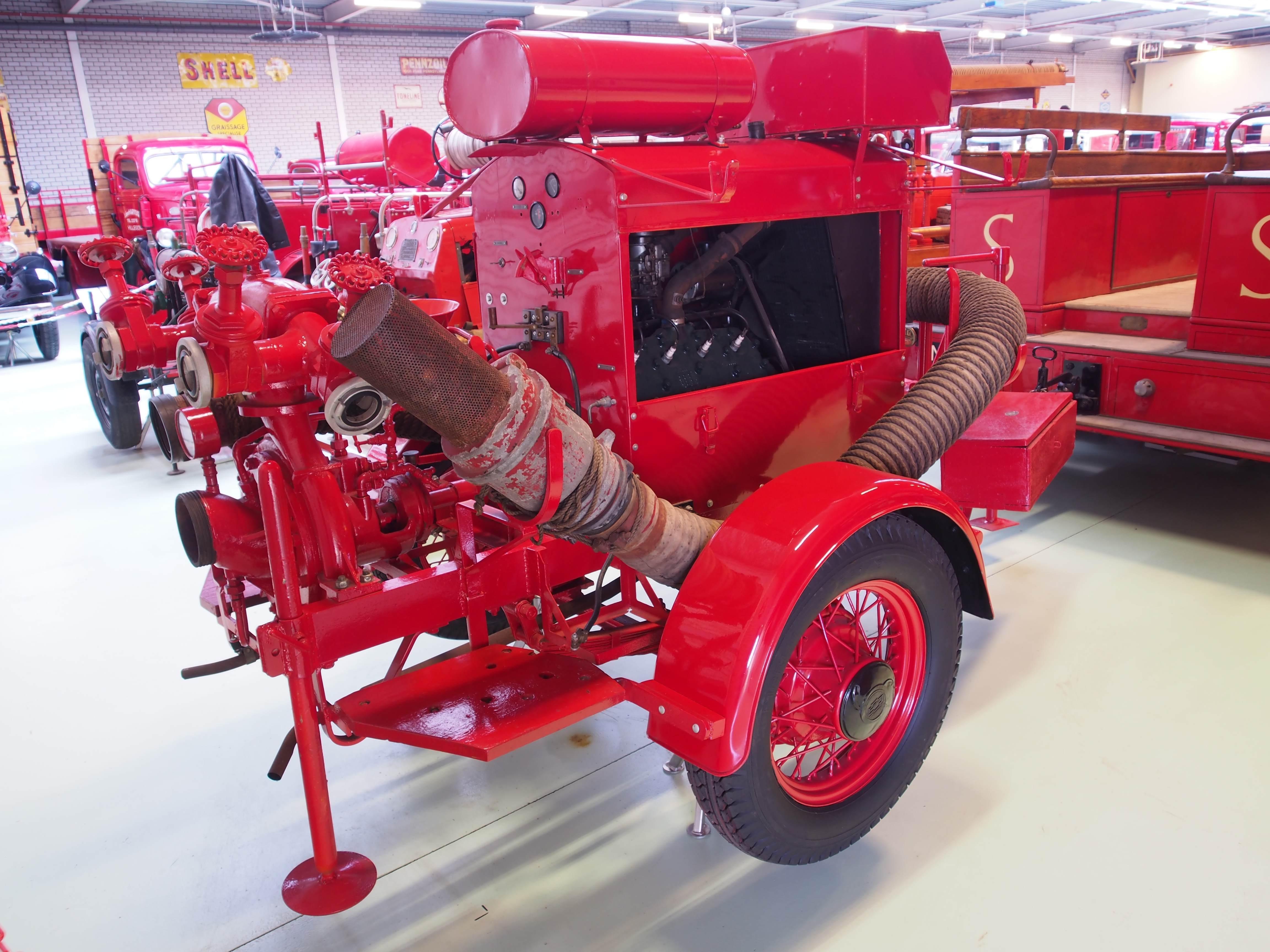 Photographed at the Den Hartogh Ford museum in the Netherlands. Ajax firefighting pump trailer.